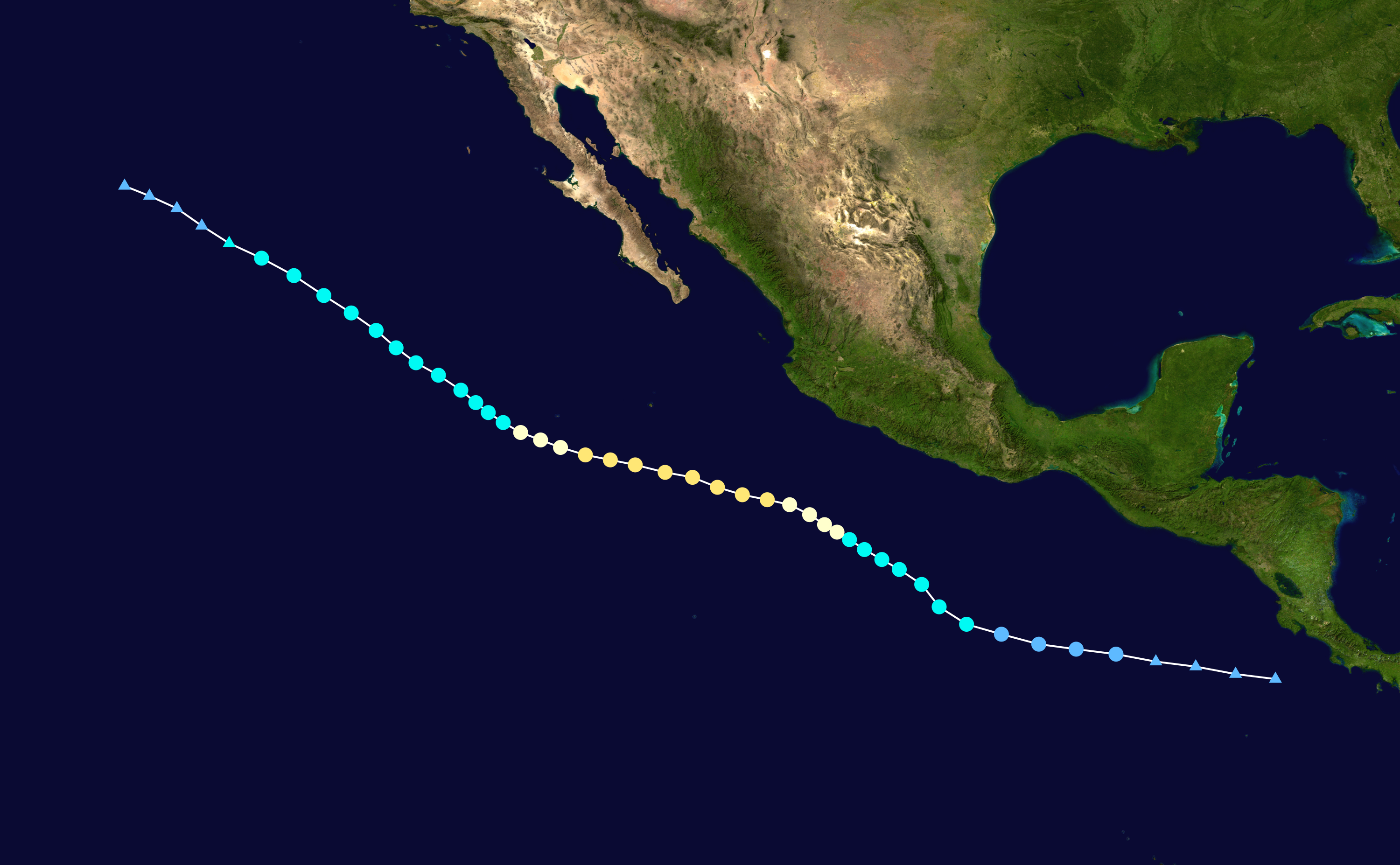 Track map of Hurricane Hilary of the 2017 Pacific hurricane season. The points show the location of the storm at 6-hour intervals. The colour represents the storm's maximum sustained wind speeds as classified in the Saffir–Simpson scale (see below), and the shape of the data points represent the nature of the storm, according to the legend below. Saffir–Simpson scale Tropical depression≤38 mph≤62 km/h Category 3111–129 mph178–208 km/h Tropical storm39–73 mph63–118 km/h Category 4130–156 mph209–251 km/h Category 174–95 mph119–153 km/h Category 5≥157 mph≥252 km/h Category 296–110 mph154–177 km/h Unknown Storm type Tropical cyclone Subtropical cyclone Extratropical cyclone / Remnant low / Tropical disturbance / Monsoon depression